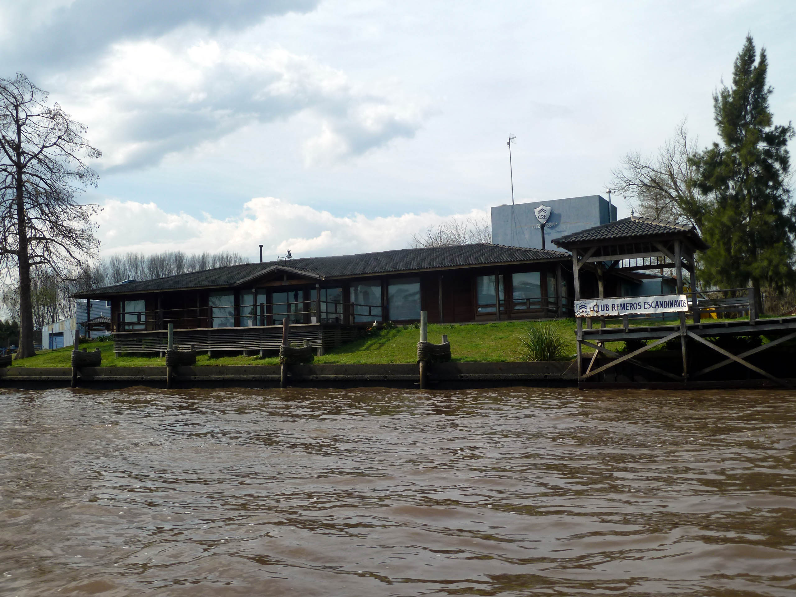 Club de Remeros Escandinavos - El Tigre - Buenos Aires - Argentina